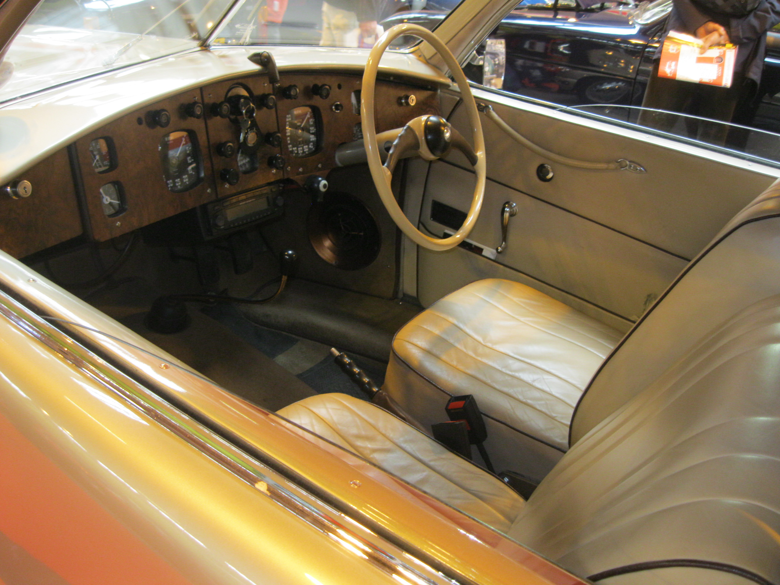 Luxurious interior with comprehensive dash. Spotted at the Birmingham NEC Classic Car Show, November 2012.